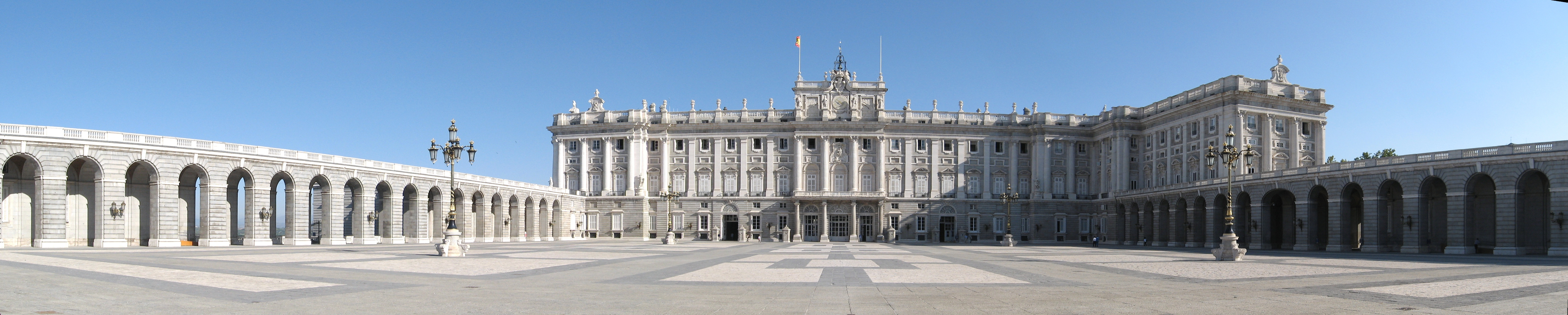 Madrid, Palacio Real (panorama)